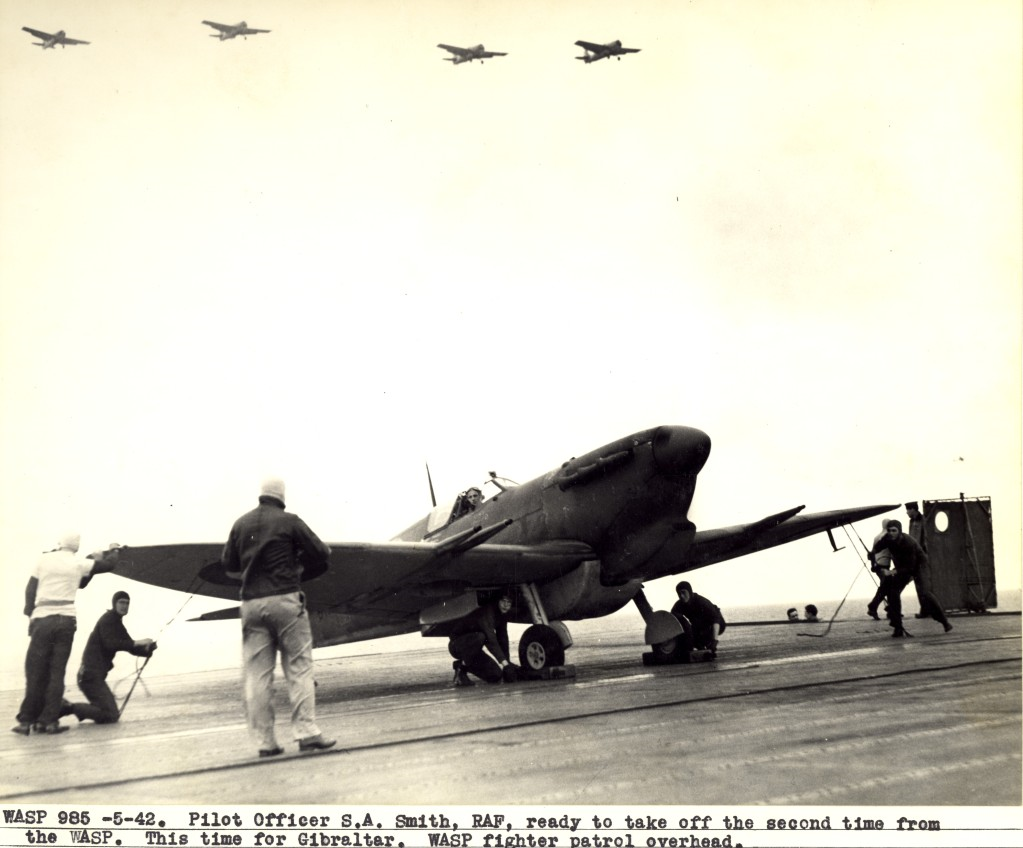 Spitfire VB ready to take off on USS WASP during Operation Calendar, April 1942